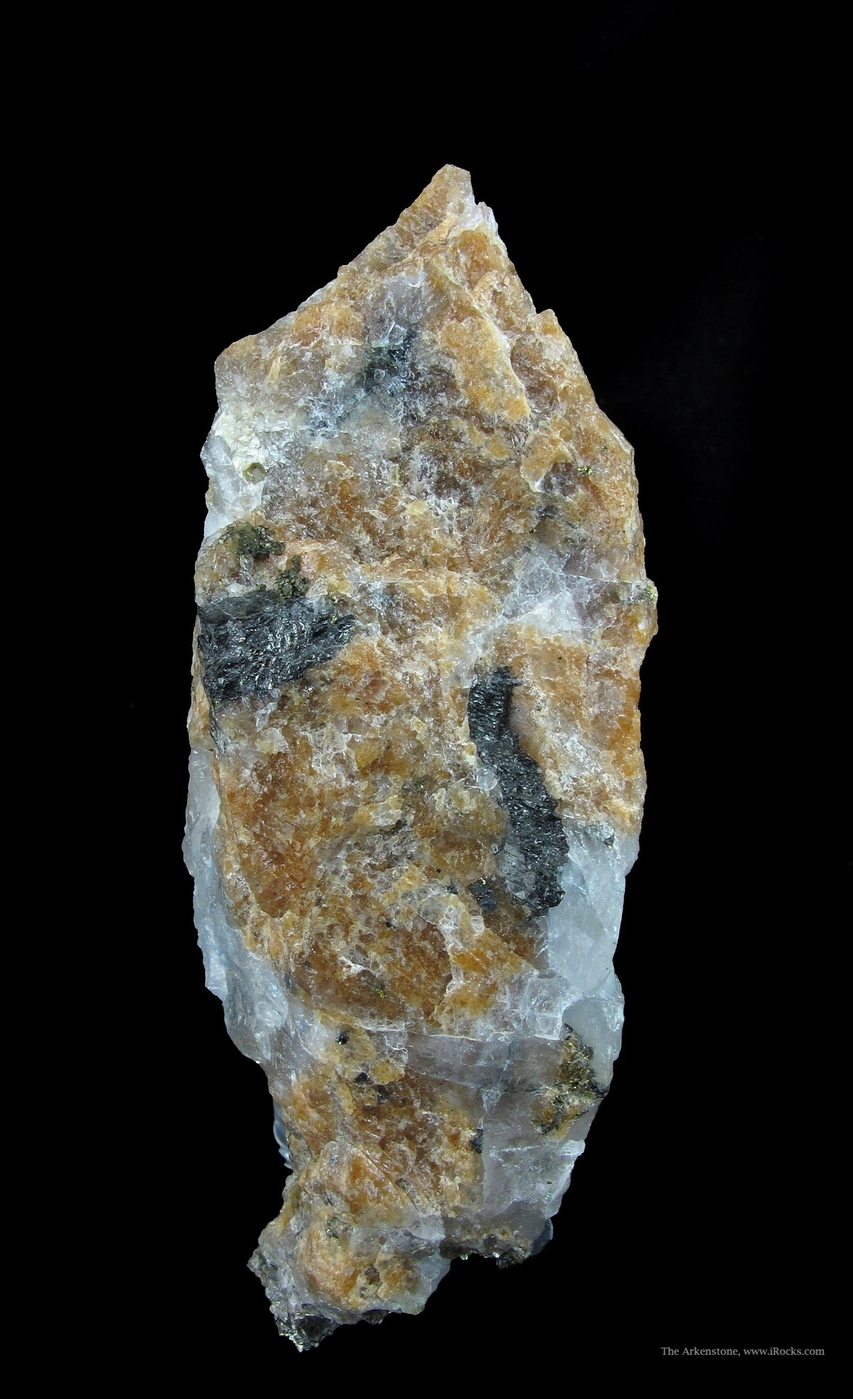 Extremely rare. Panasqueraite occurs at only two locations, and these are in the same district. This crystalline, massive panasqueiraite is classic for its habit and tannish-flesh color. The luster is actually very good, and I am told this would be a very rich specimen. The remaining parts of the piece is gray quartz, bladed but incomplete ferberite, and muscovite crystals. Ex. Art Soregaroli Collection. From: Panasqueira Mines, Covilhã, Castelo Branco, Portugal.